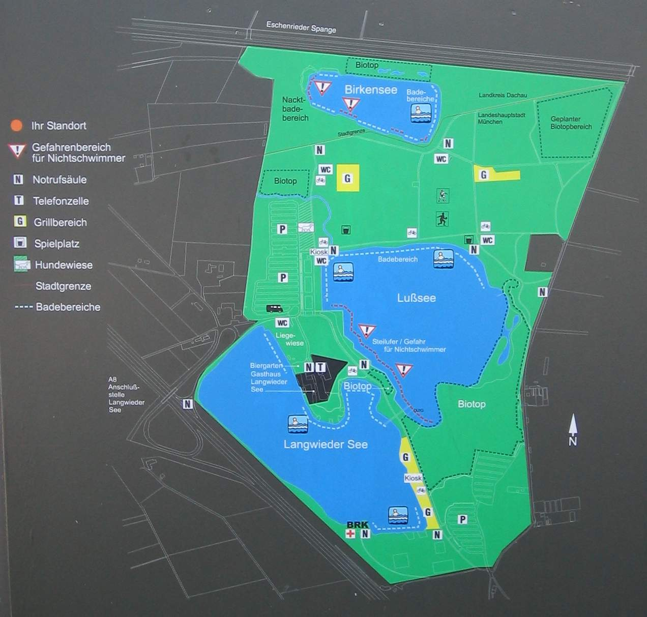 Situation Map of Langwieder Seenplatte in [:[Munich , Bavaria